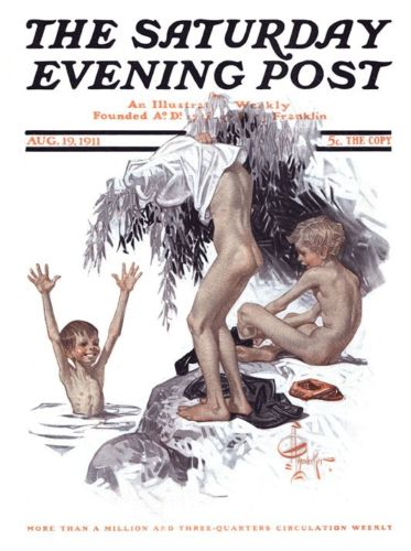 Uploaded by Clem Rutter, Rochester, Kent.